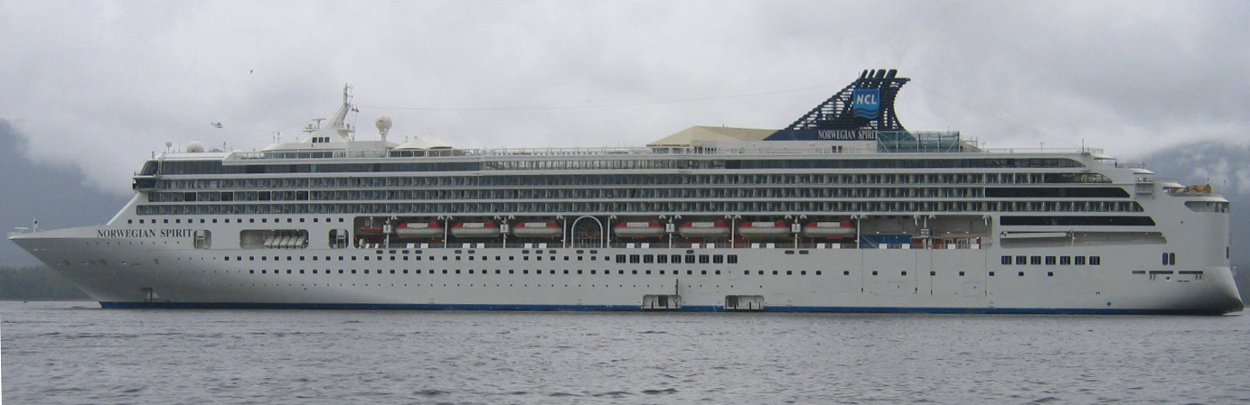 Norwegian Spirit off Ketchikan, Alaska IMO Number: 9141065 MMSI Number: 311746000 Callsign: C6TQ6 Length: 267 m Beam: 36 m